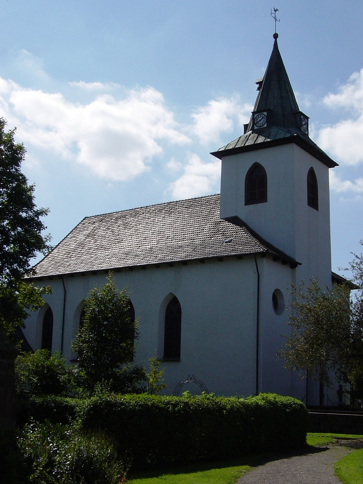 Catholic church St. Peter und Paul Amelunxen, Beverungen (Germany)